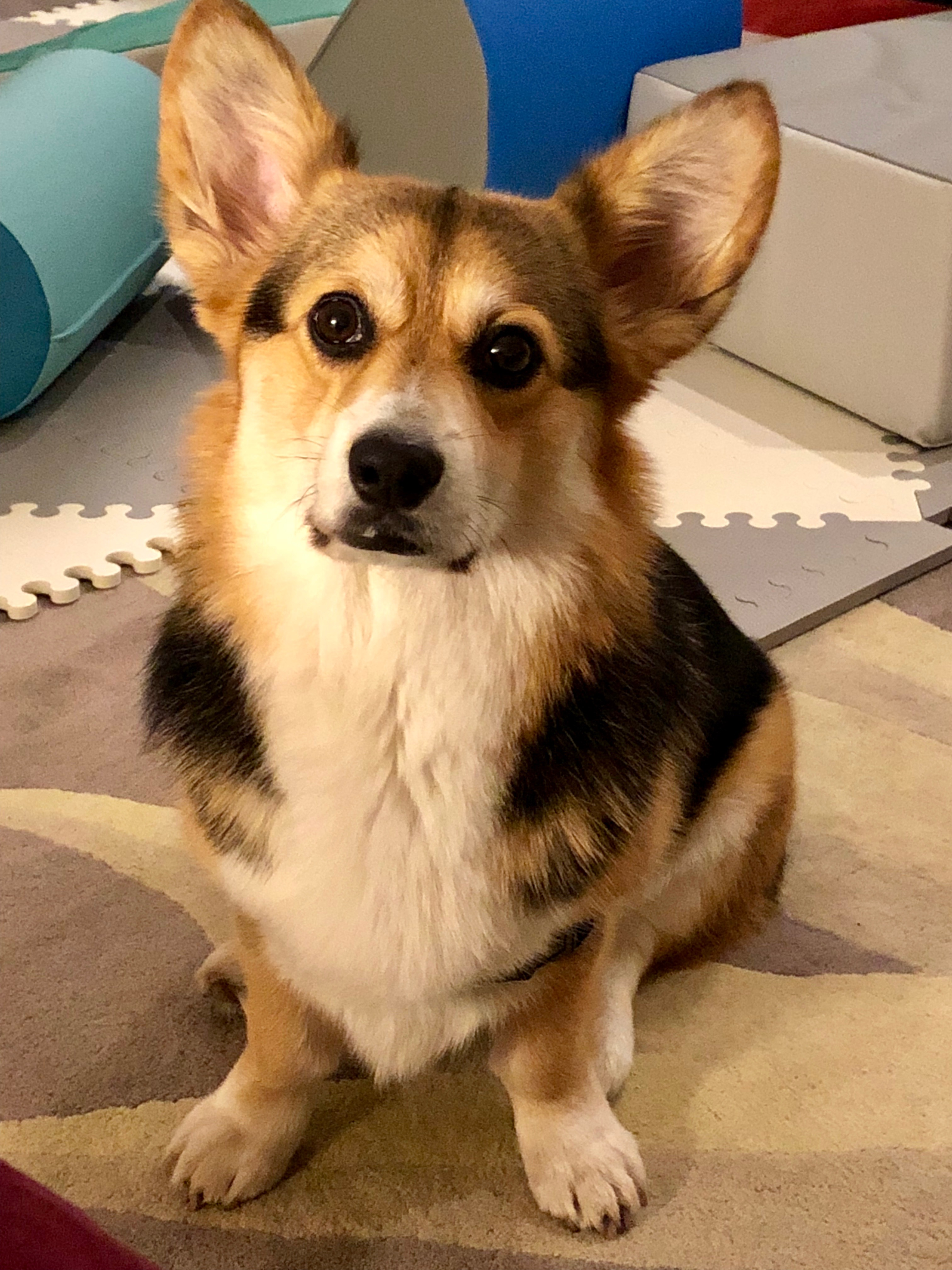 2.5-year-old tricolor Pembroke Welsh Corgi